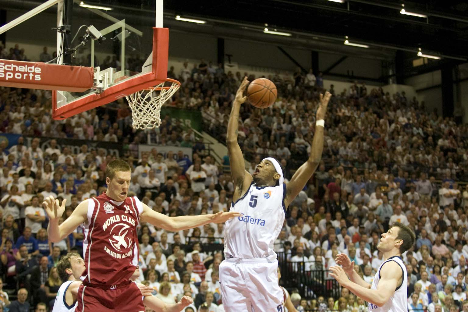 Tim Blue and Thomas Koenis going for the ball.